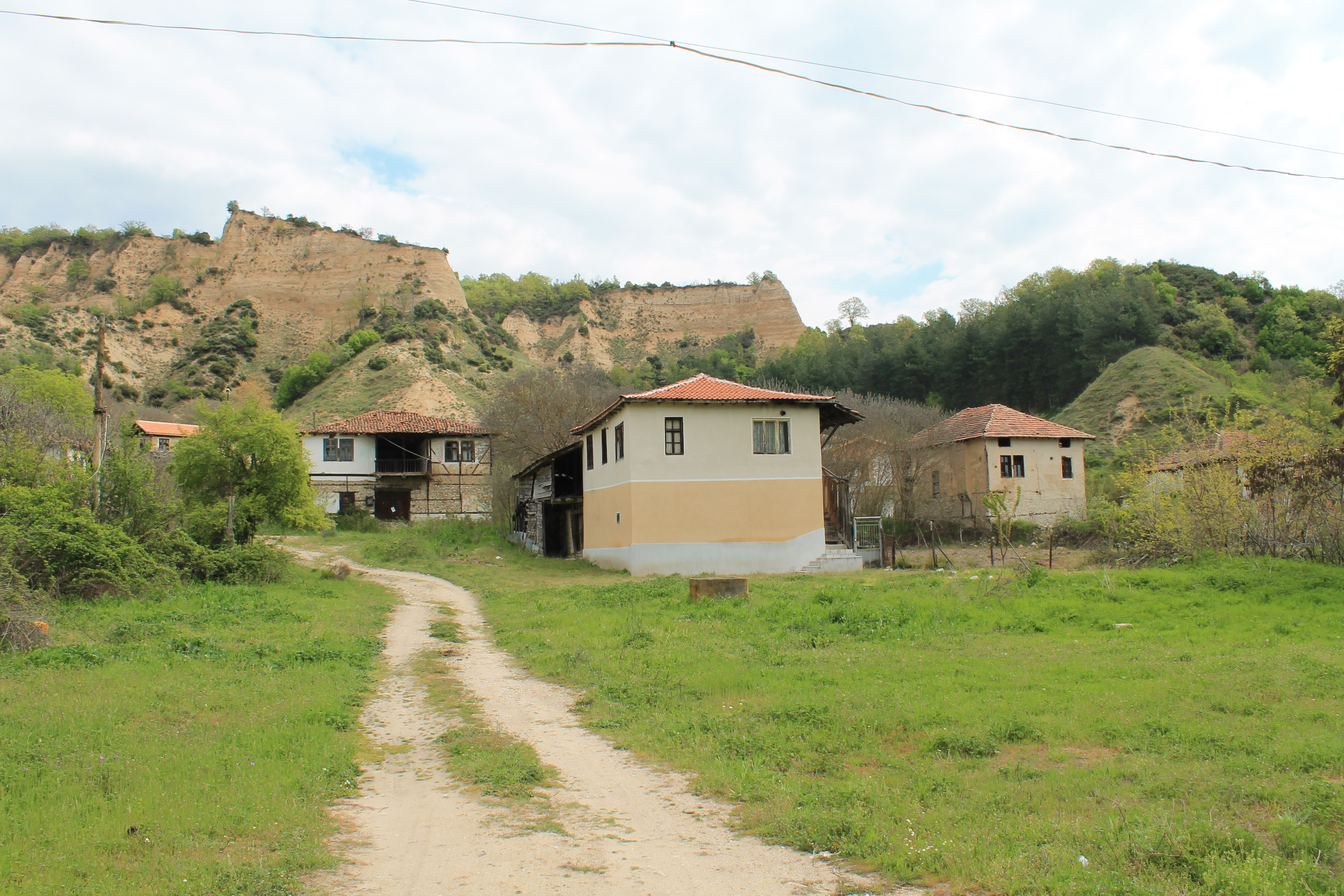 View from Zlatolist, Southwestern Bulgaria